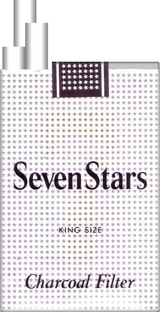 Seven Stars Charcoal Filter(Japanese Cigarettes)